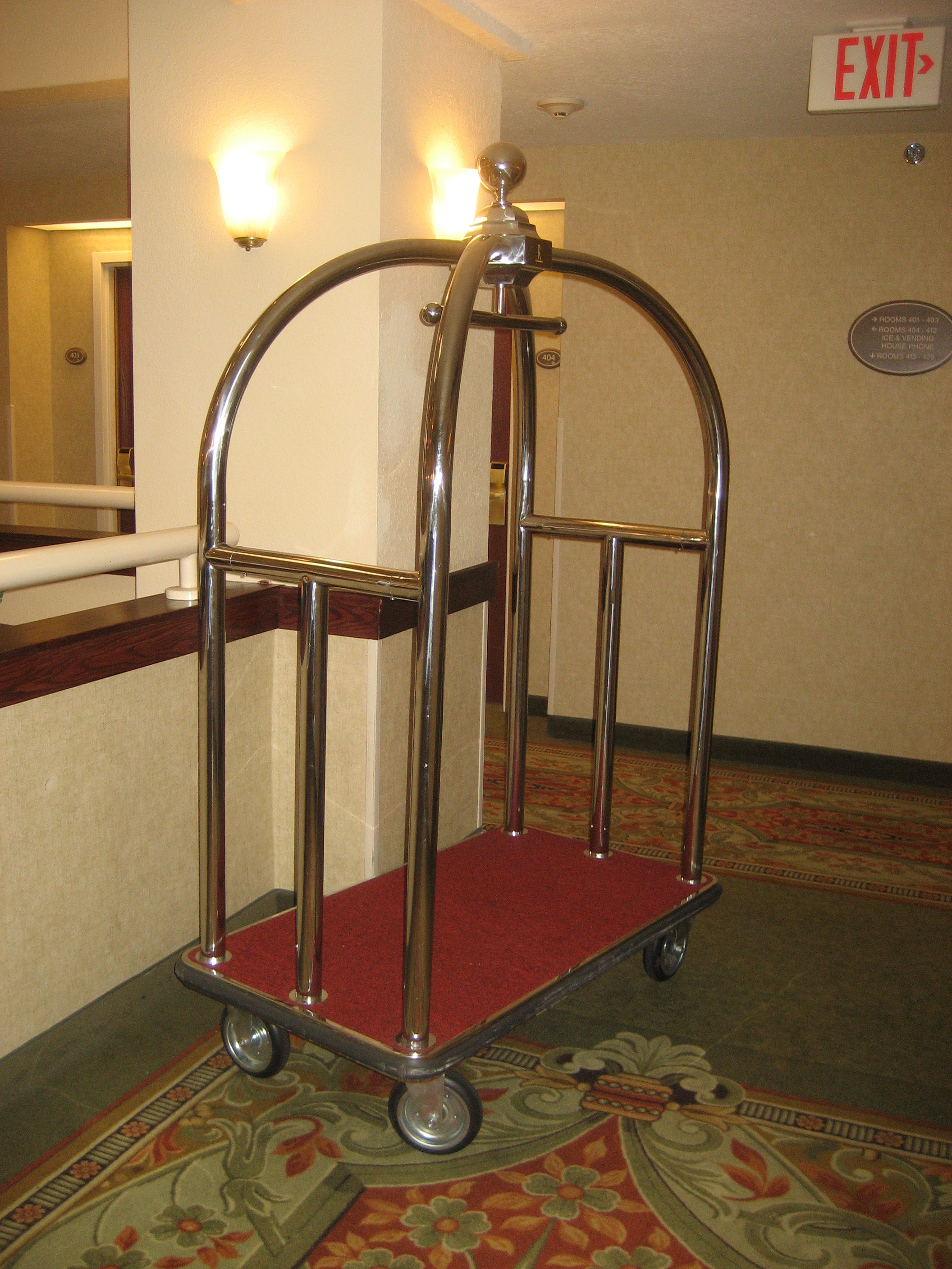 Lake City, Florida. Interior of Holiday Inn Hotel. Luggage cart.